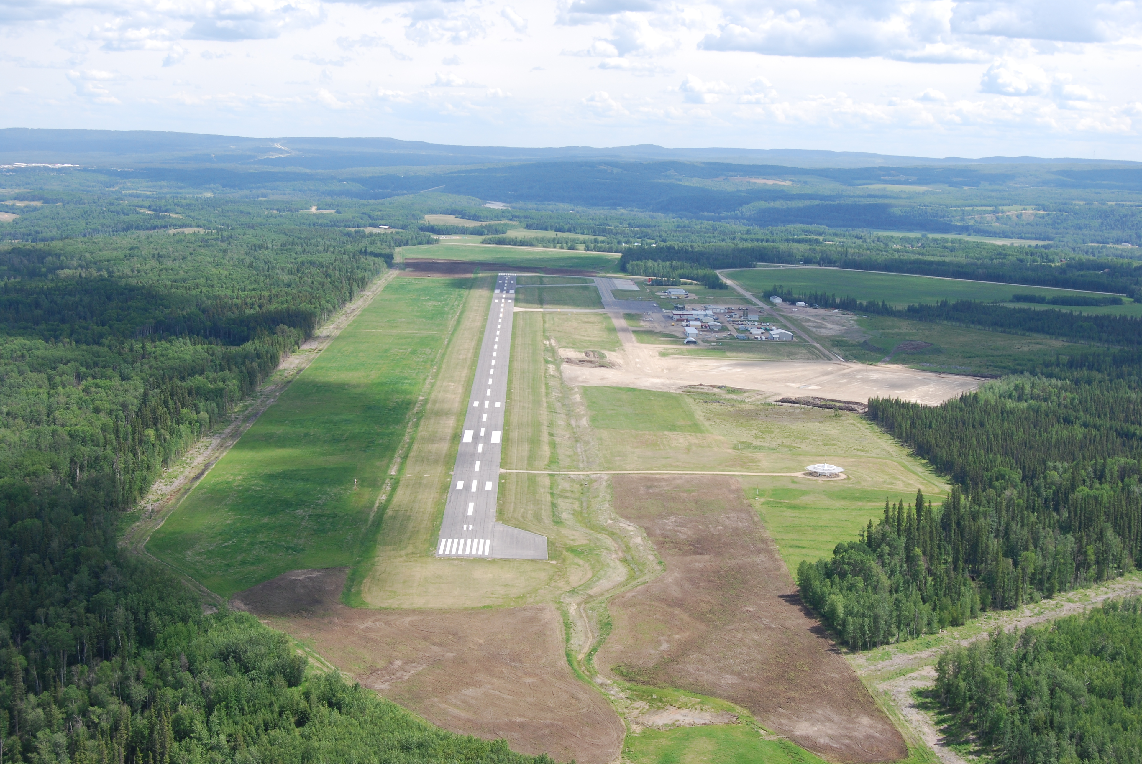 Whitecourt Airport on approach for 11.